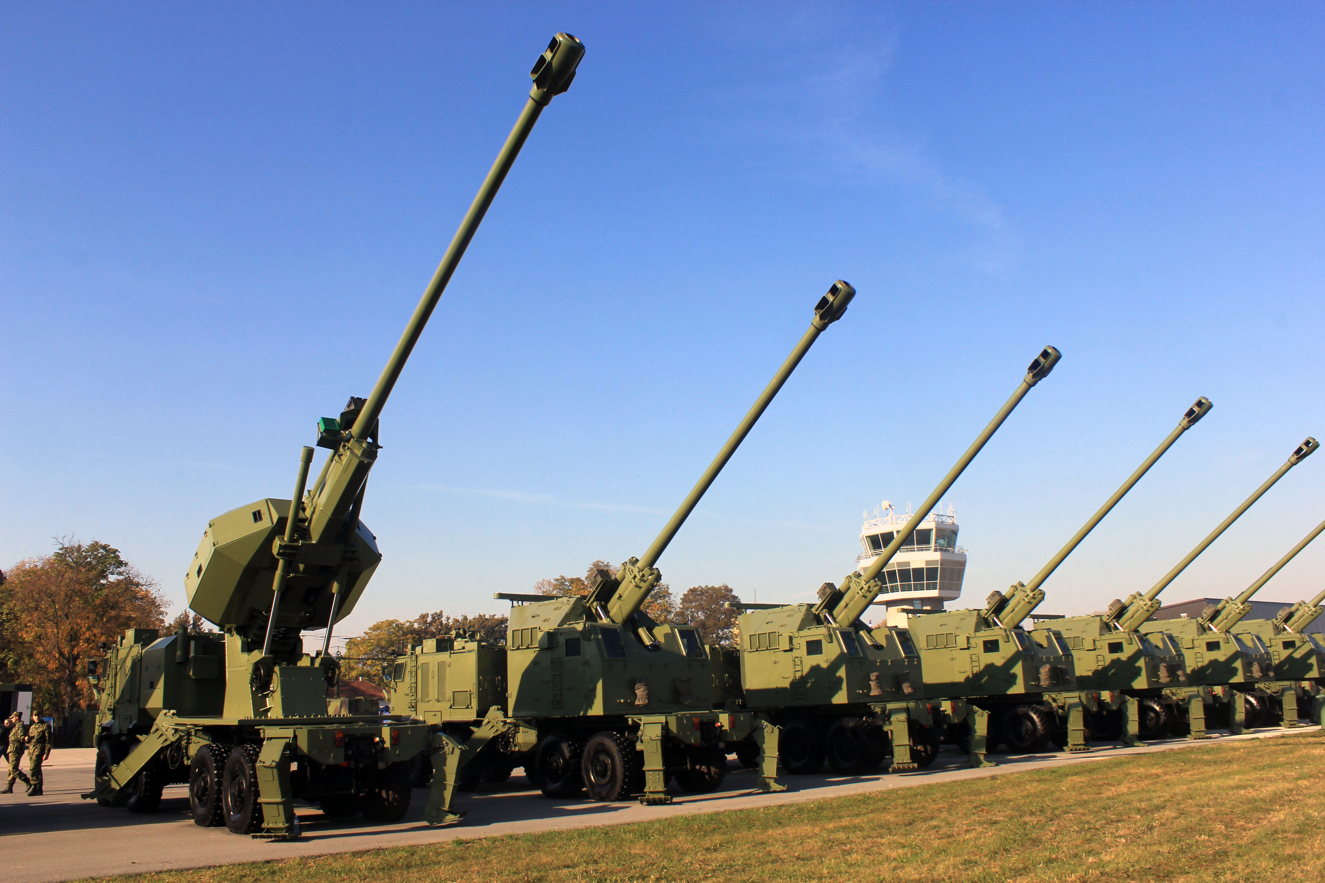 New 155mm SPH Aleksandar and NORA B-52 at Batajnica Air Base presented during the Belgrade liberation day celebration and "Sloboda 2017" military exercise.